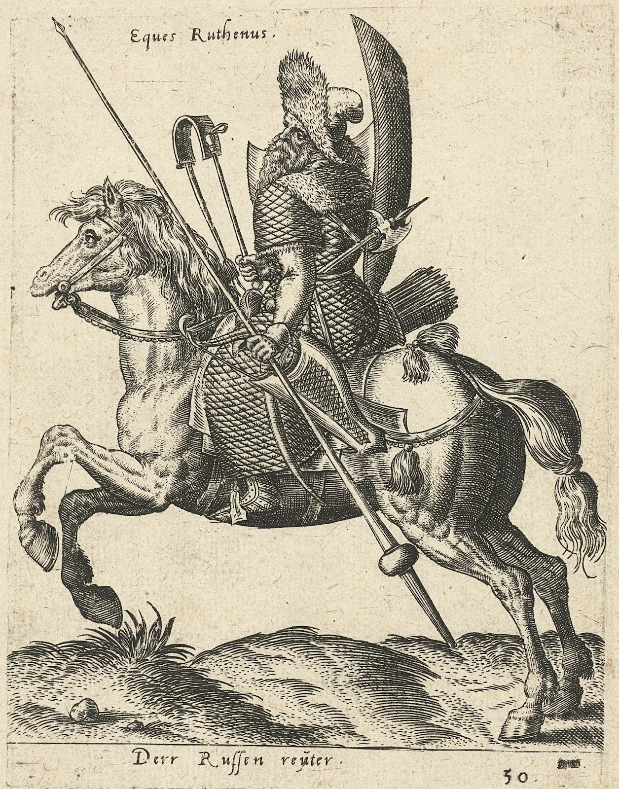 Ruthenian hussar